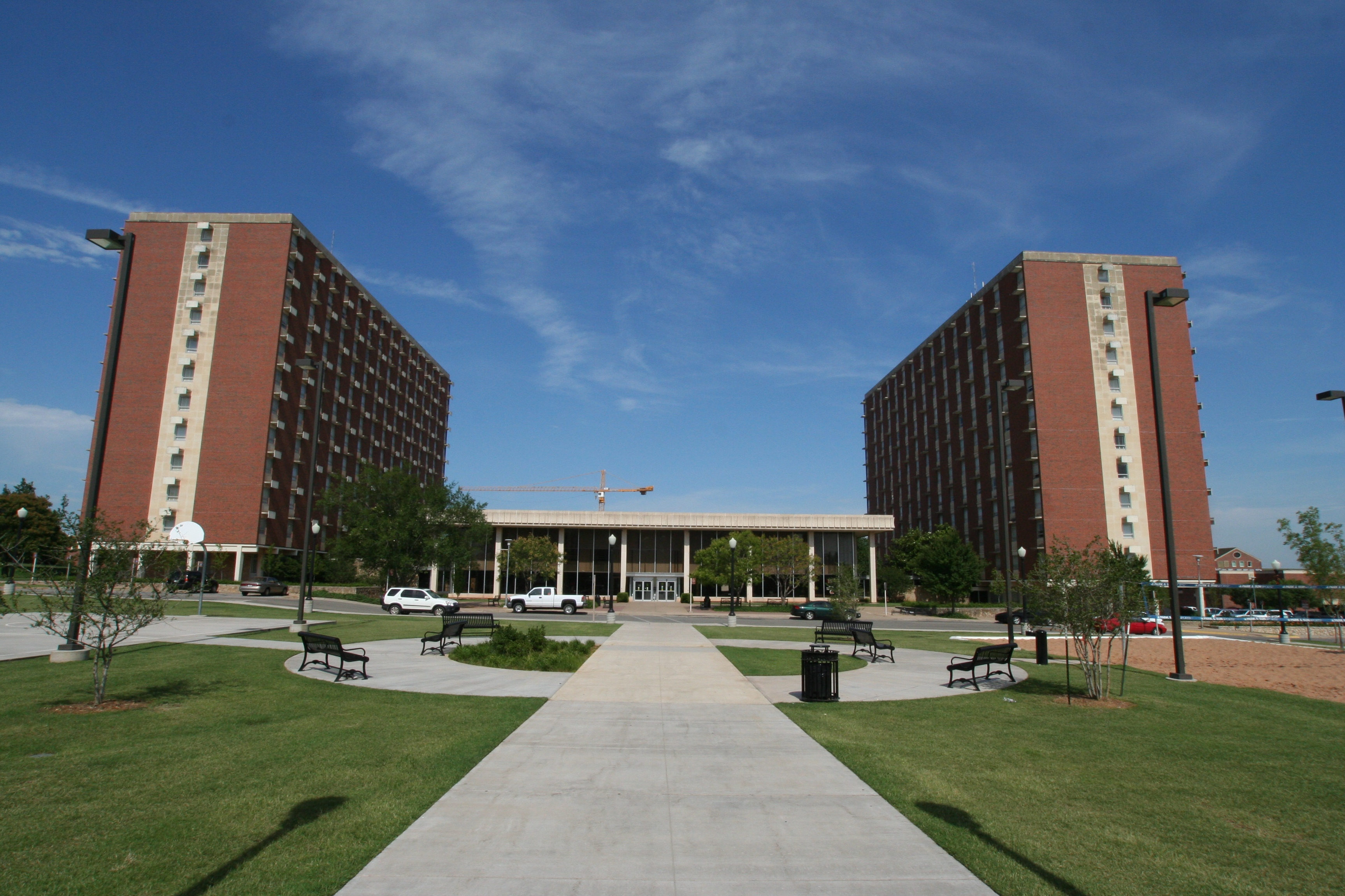 Kerr (left) and Drummond (right) high-rise residence halls as well as "mezzanine" building (center) on the campus of Oklahoma State University.